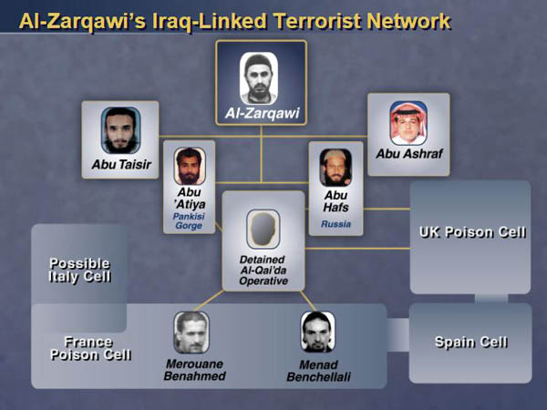 Colin Powell's UN presentation slide showing alleged "UK poison cell" and others as part of the Abu Musab al-Zarqawi global terrorist network. (Subequently shown to be an incorrect allegation.) Speech entitled: Remarks to the United Nations Security Council, Secretary Colin L. Powell, February 5, 2003 Slide entitled: Al-Zarqawi's Iraq-Linked Terrorist Network